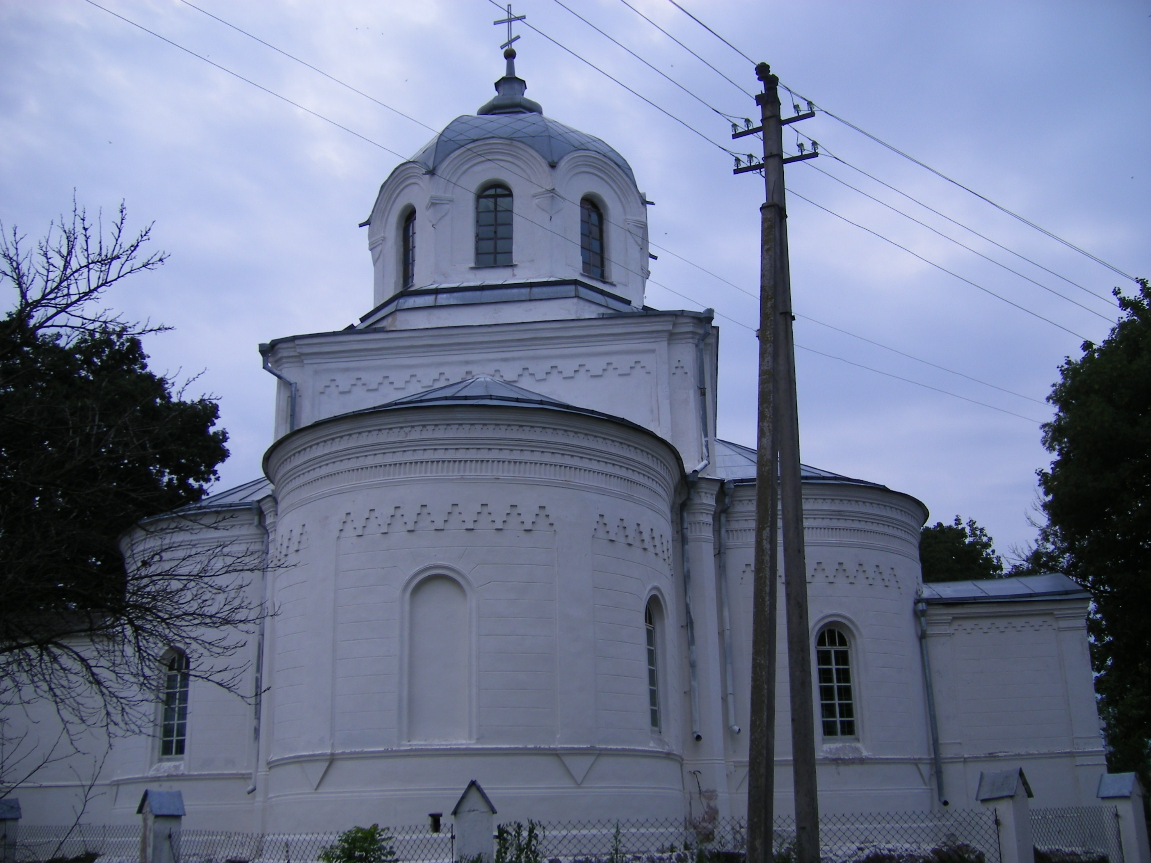 Dzisna, church of the Resurrection of Christ.